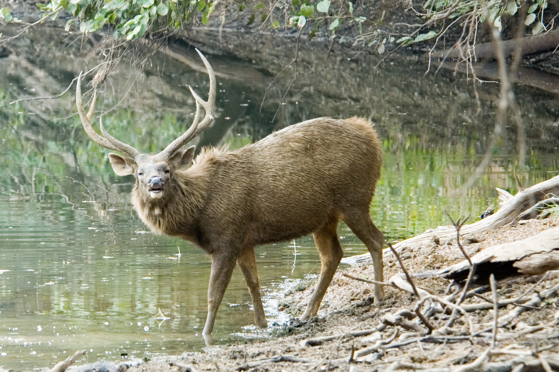 Sambar deer cropped picture